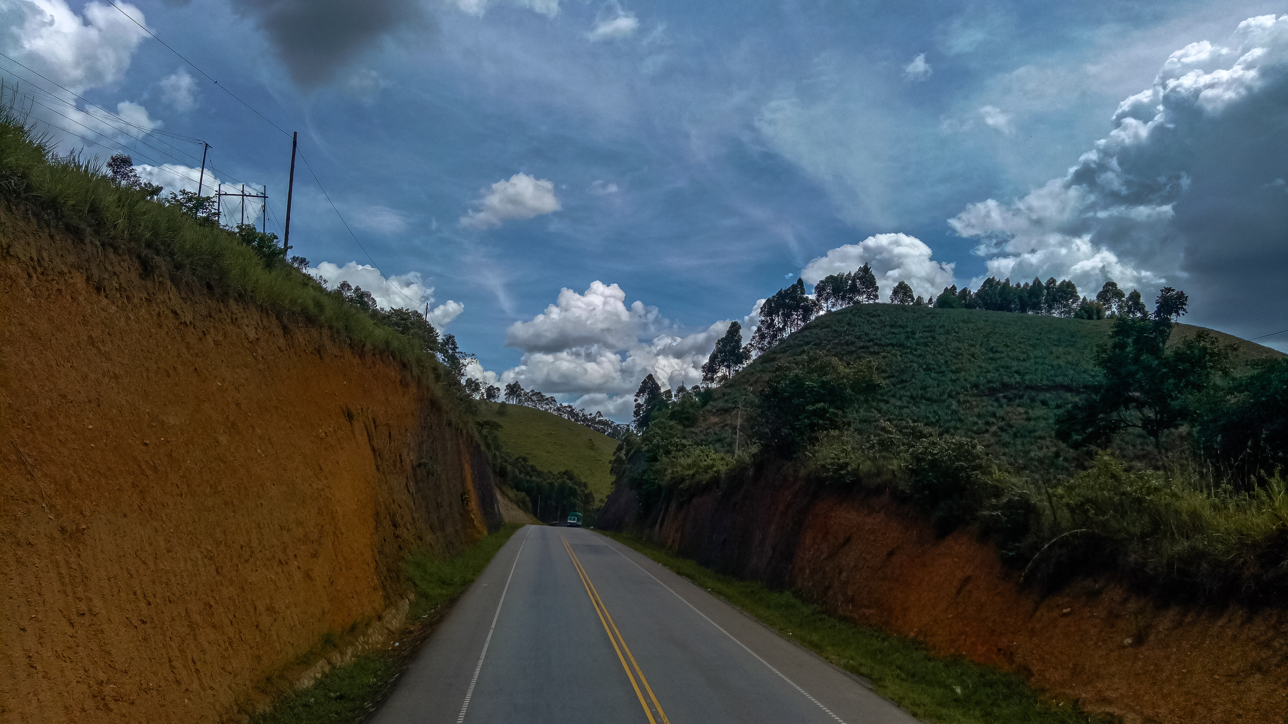 This is an image with the theme "Africa on the Move or Transport" from: Uganda